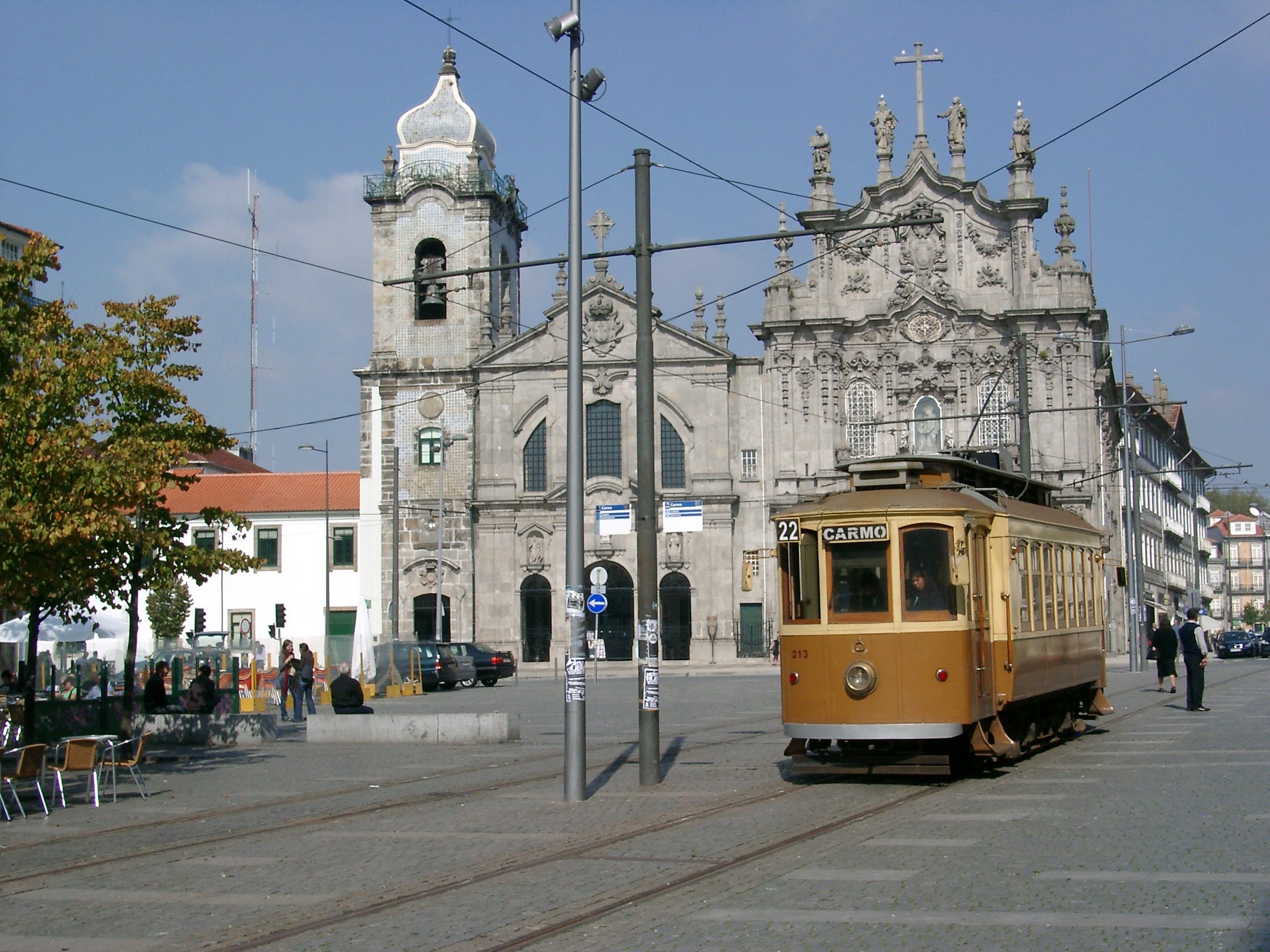 Tram on line 22 in Porto, Portugal. In the background are the Igrejas dos Carmelitas e do Carmo (Carmelitas and Carmo Churches).